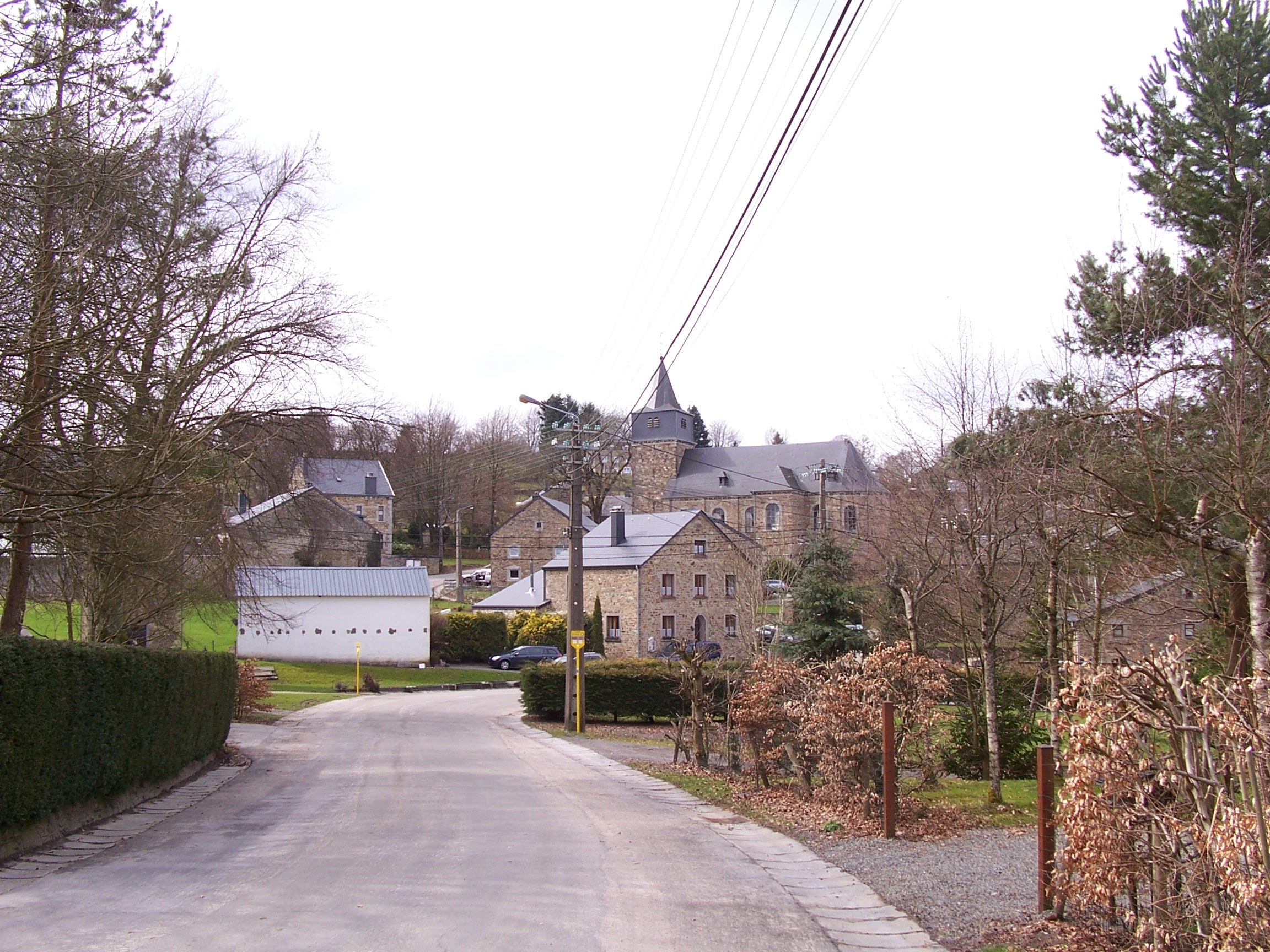 The town centre of Dochamps.